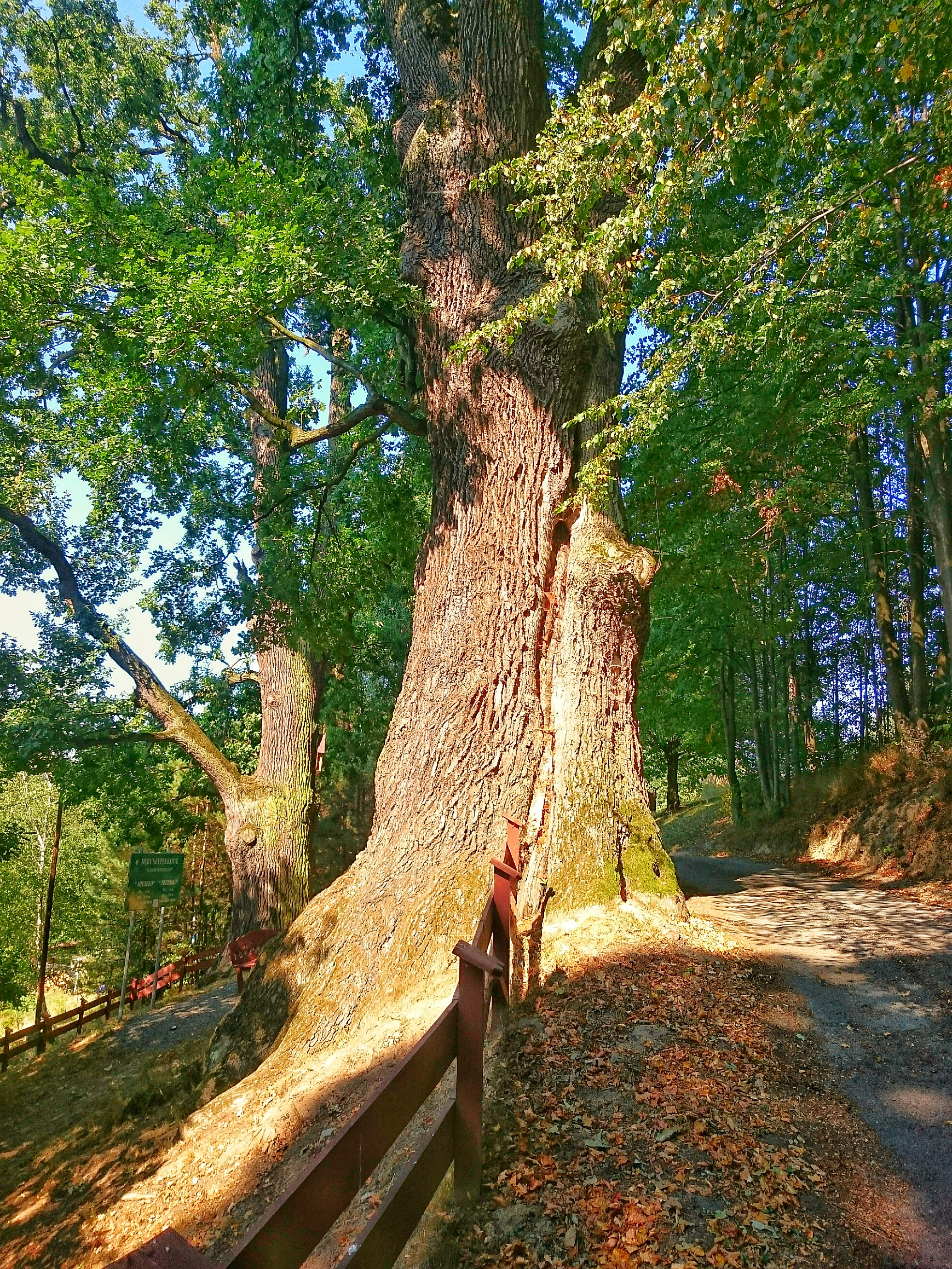 Oak Mieszko visible at the front with large trunk. Przemko oak in the background.